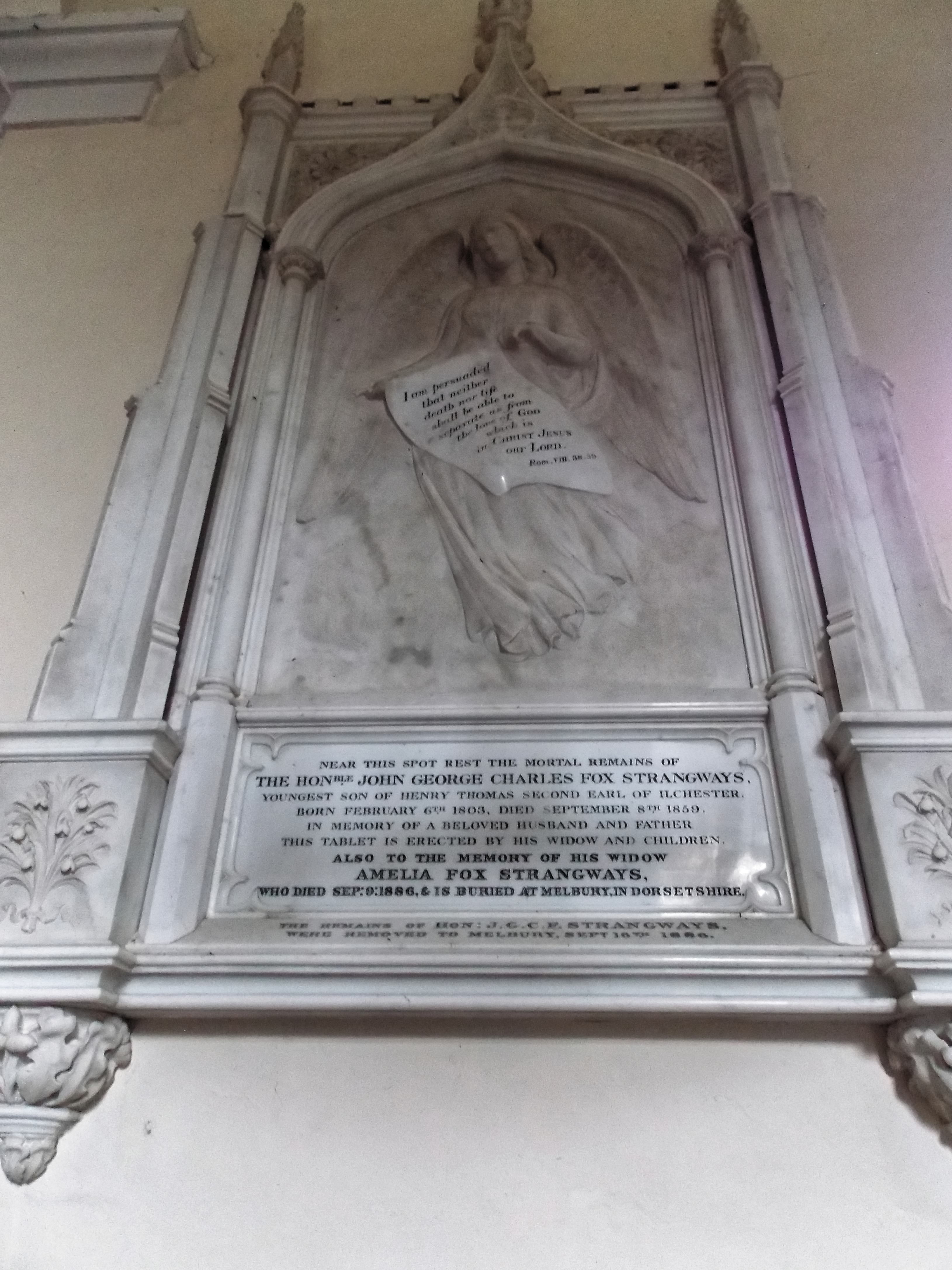 Nave wall memorial monument to John George Charles Fox Strangways (1803-1859), and his wife, Amelia (d.1886), in All Saints Church in Farley, Wiltshire, England.